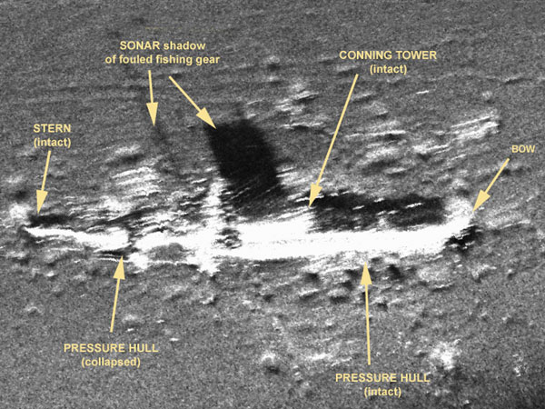 Underwater view of the wreck of USS O-9 (SS-70).